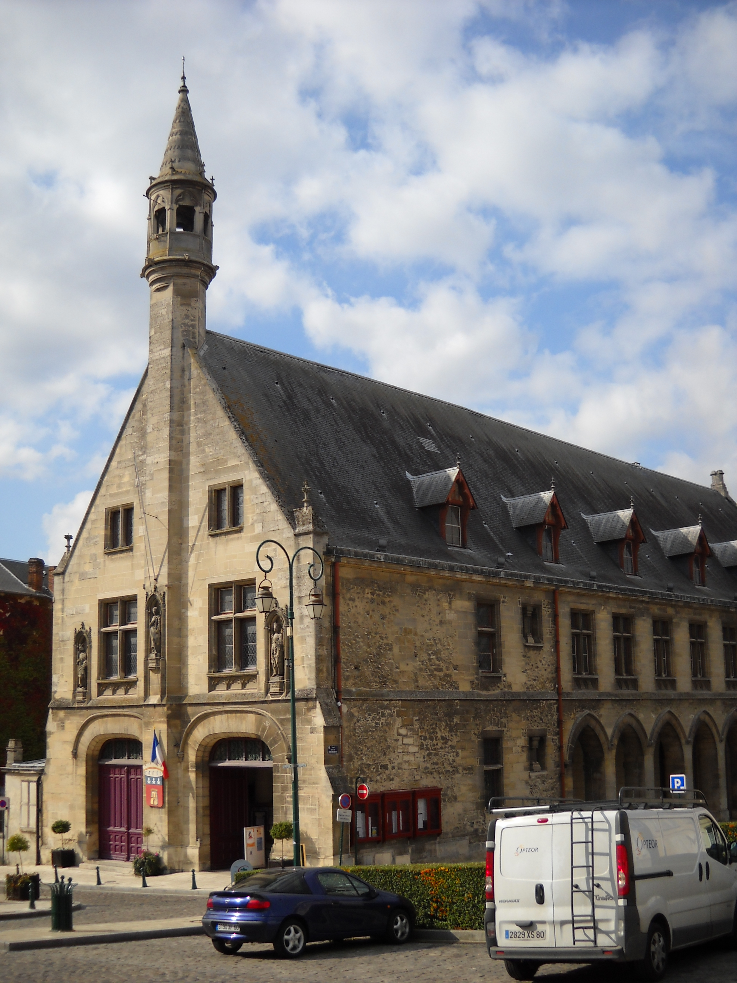 The town hall of Clermont, Oise, France.